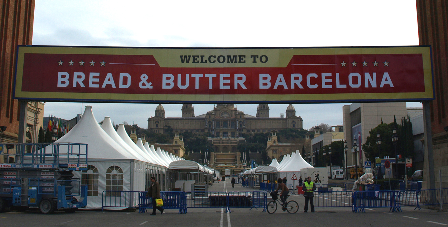 Bread and Butter Barcelona (fashion week)